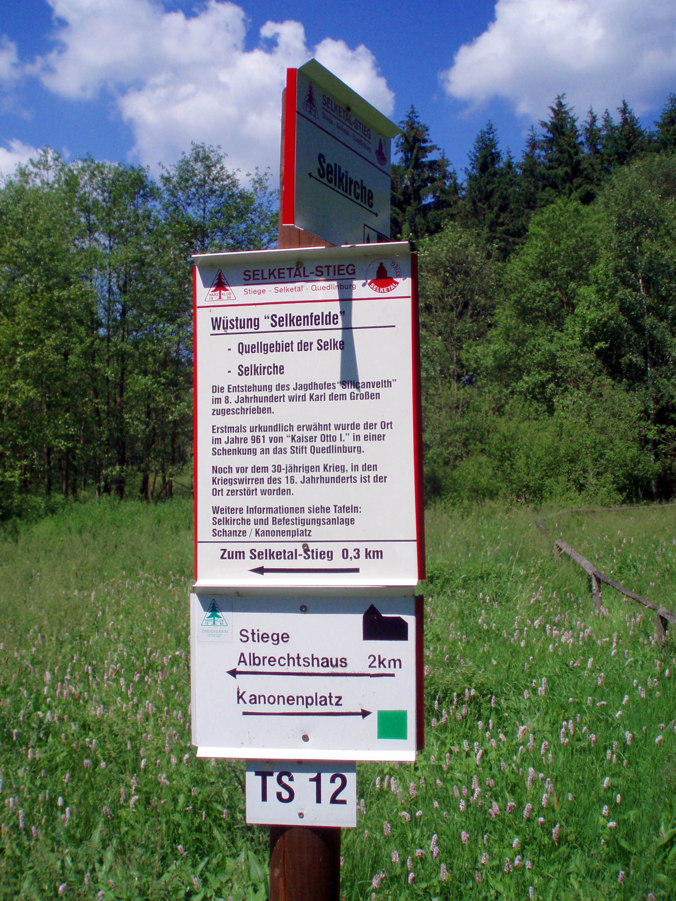 Sign marking the abandoned village of Selkenfelde in Harz district, Saxony-Anhalt, Germany